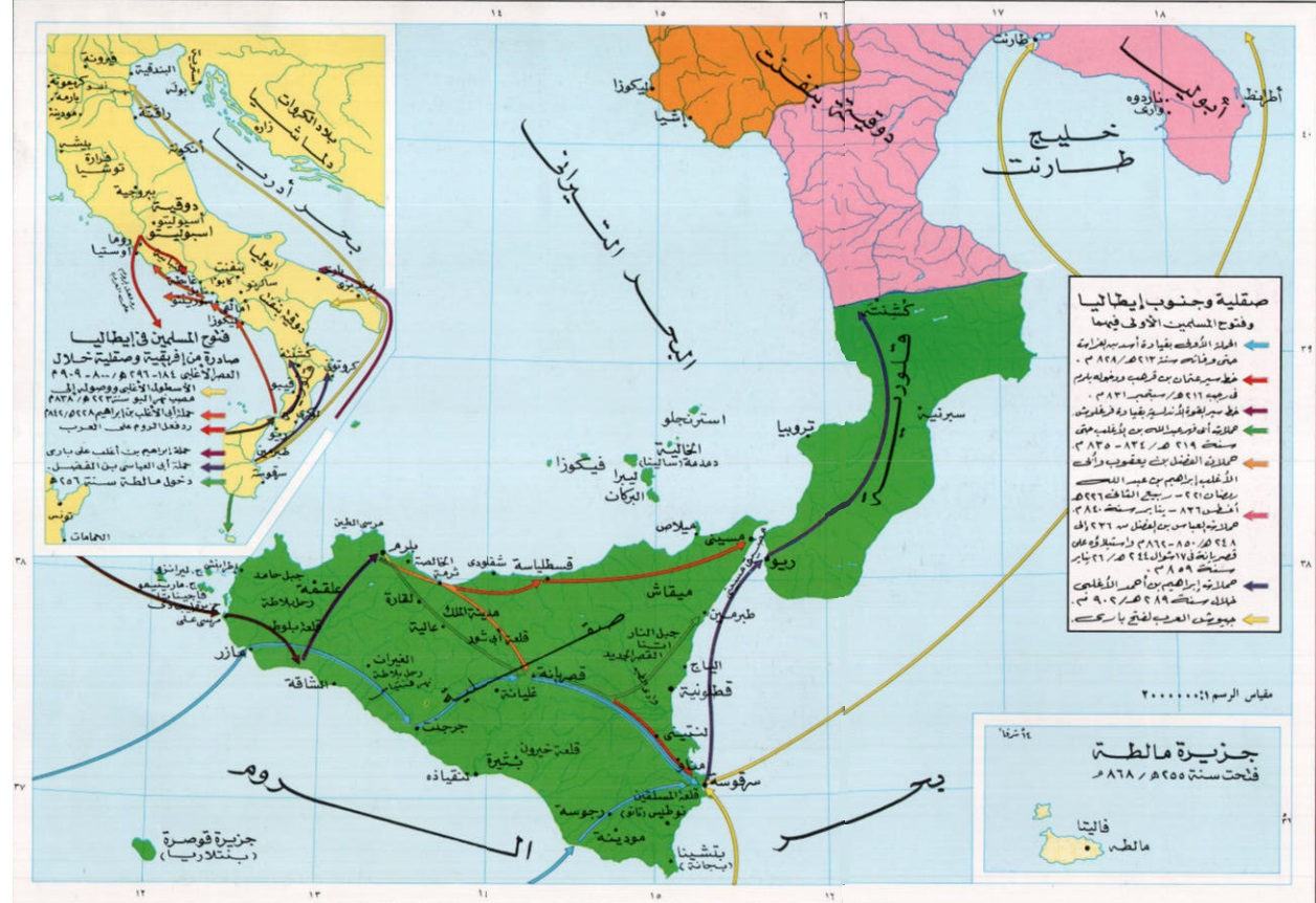 Islamic Conquests in Sicily and southern Italy.